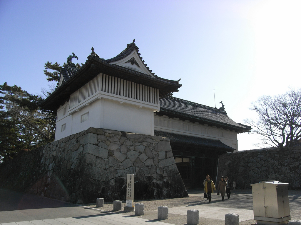 Shachinomon gate of Saga Castle, Saga city.